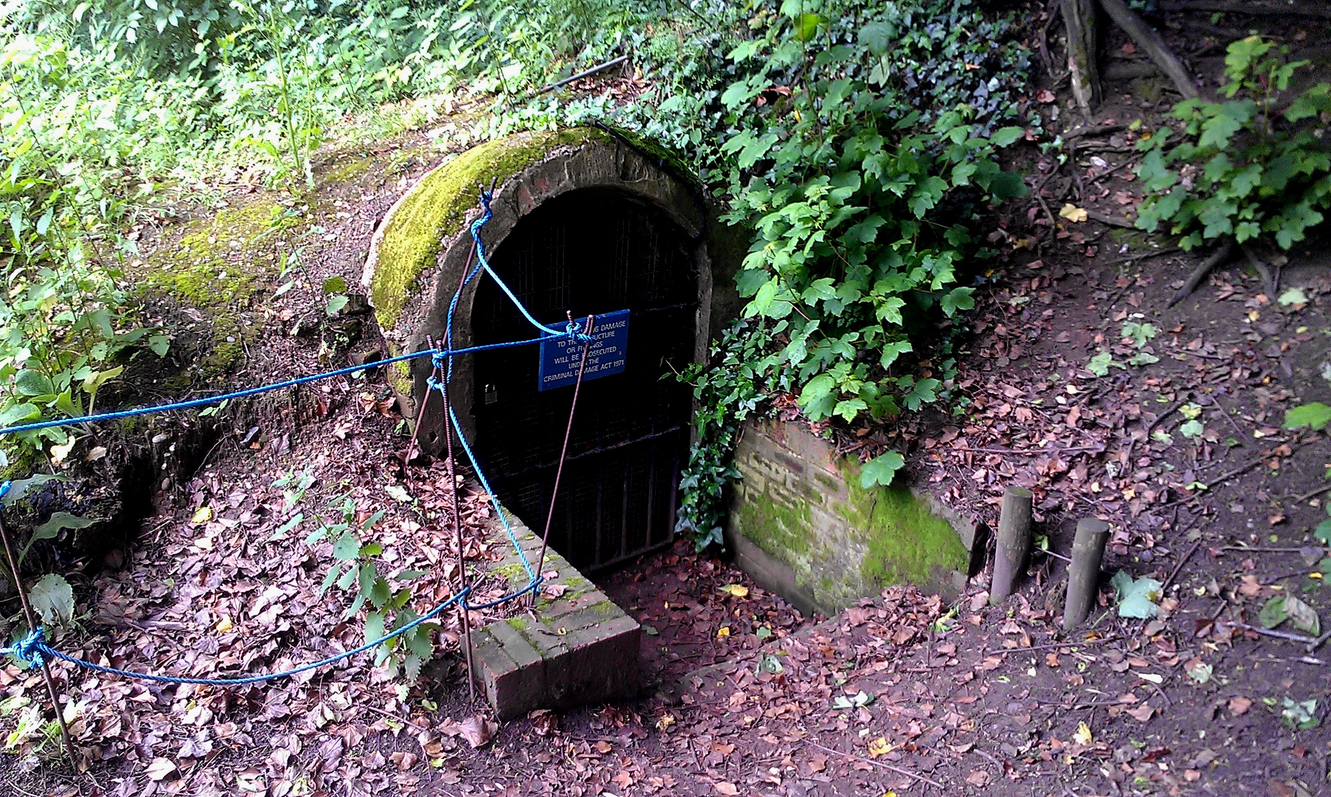 The entrance to the ice well at High Elms Country Park, London Borough of Bromley.